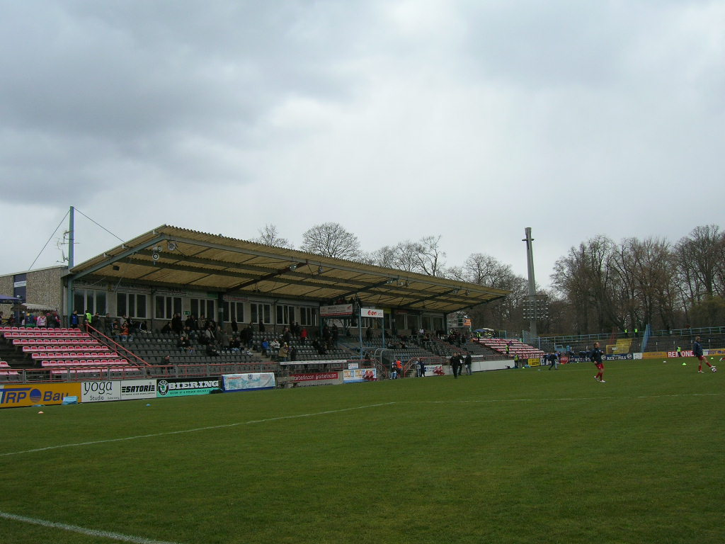 grandstand of the Karl-Liebknecht-Stadion